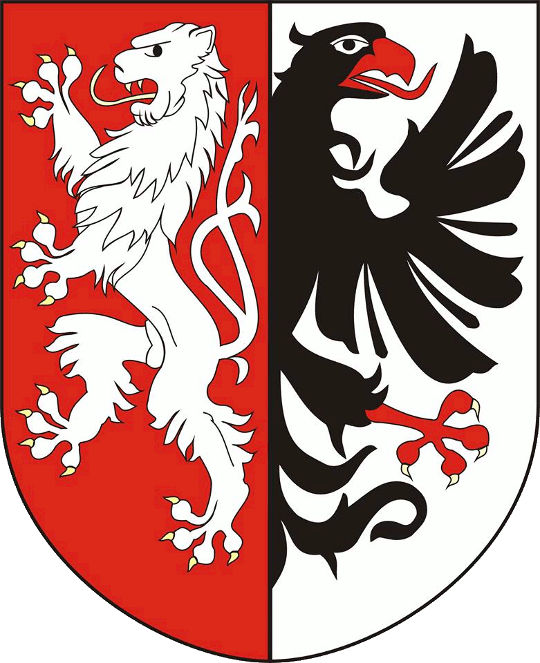 Municipal coat of arms of Starý Plzenec town, Plzeň-City District, Czech Republic.